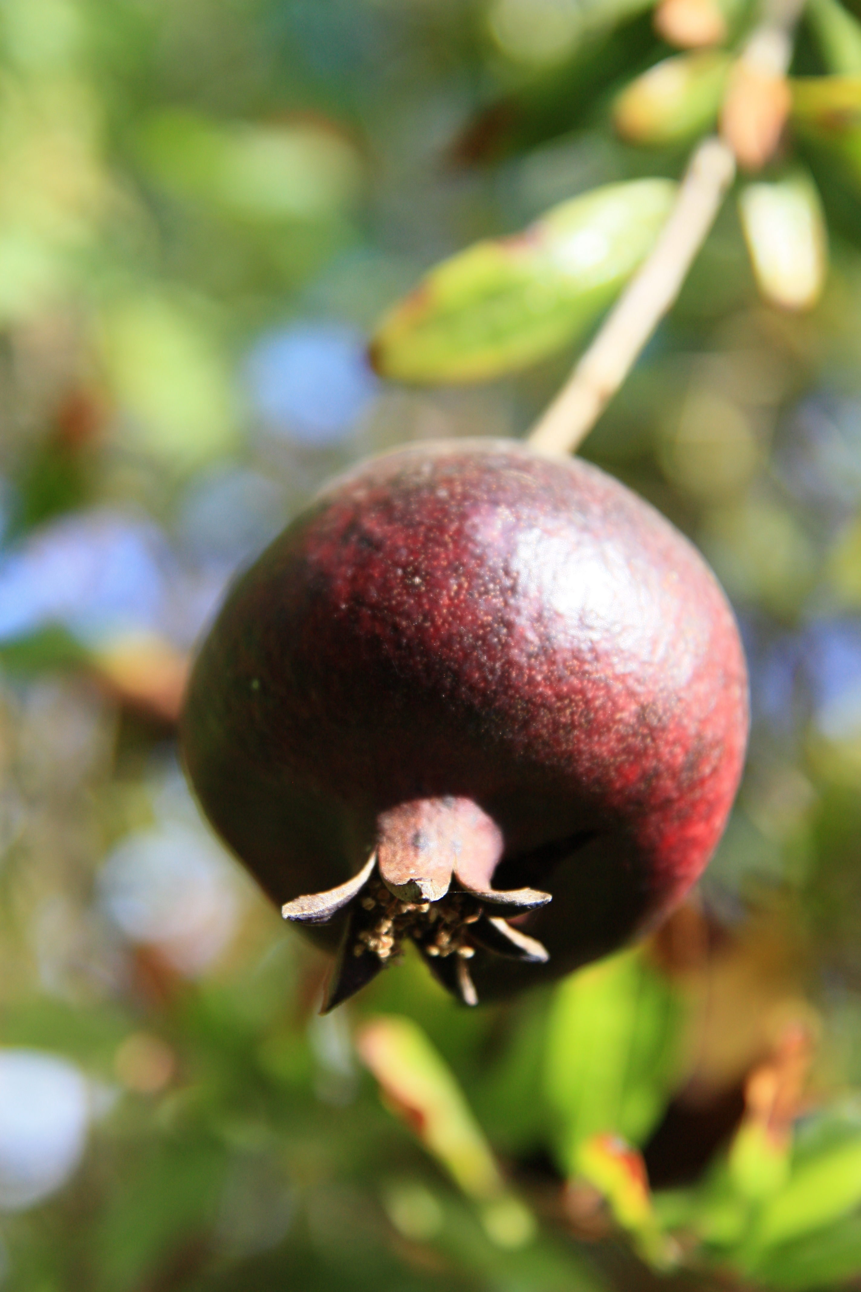 fruit trees